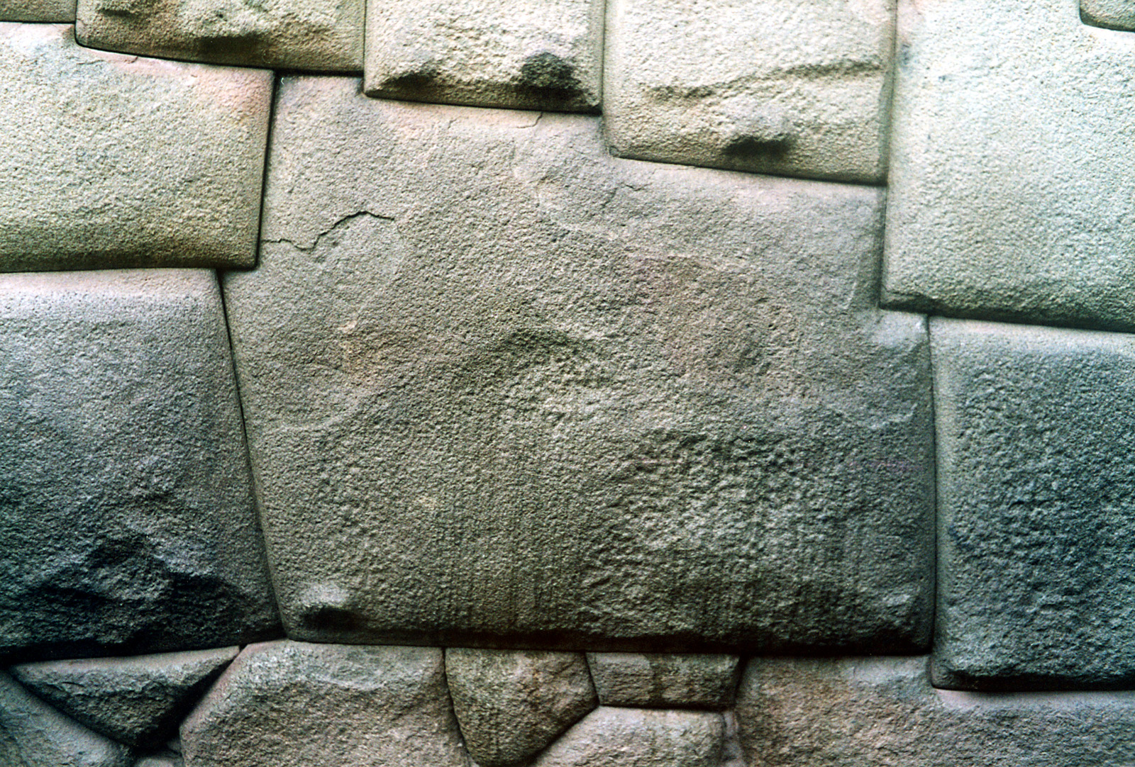 La piedra de doce ángulos en Calle Hatum Rumiyoc, Cusco, Perú. The photo was taken by Håkan Svensson (Xauxa) in 2002.